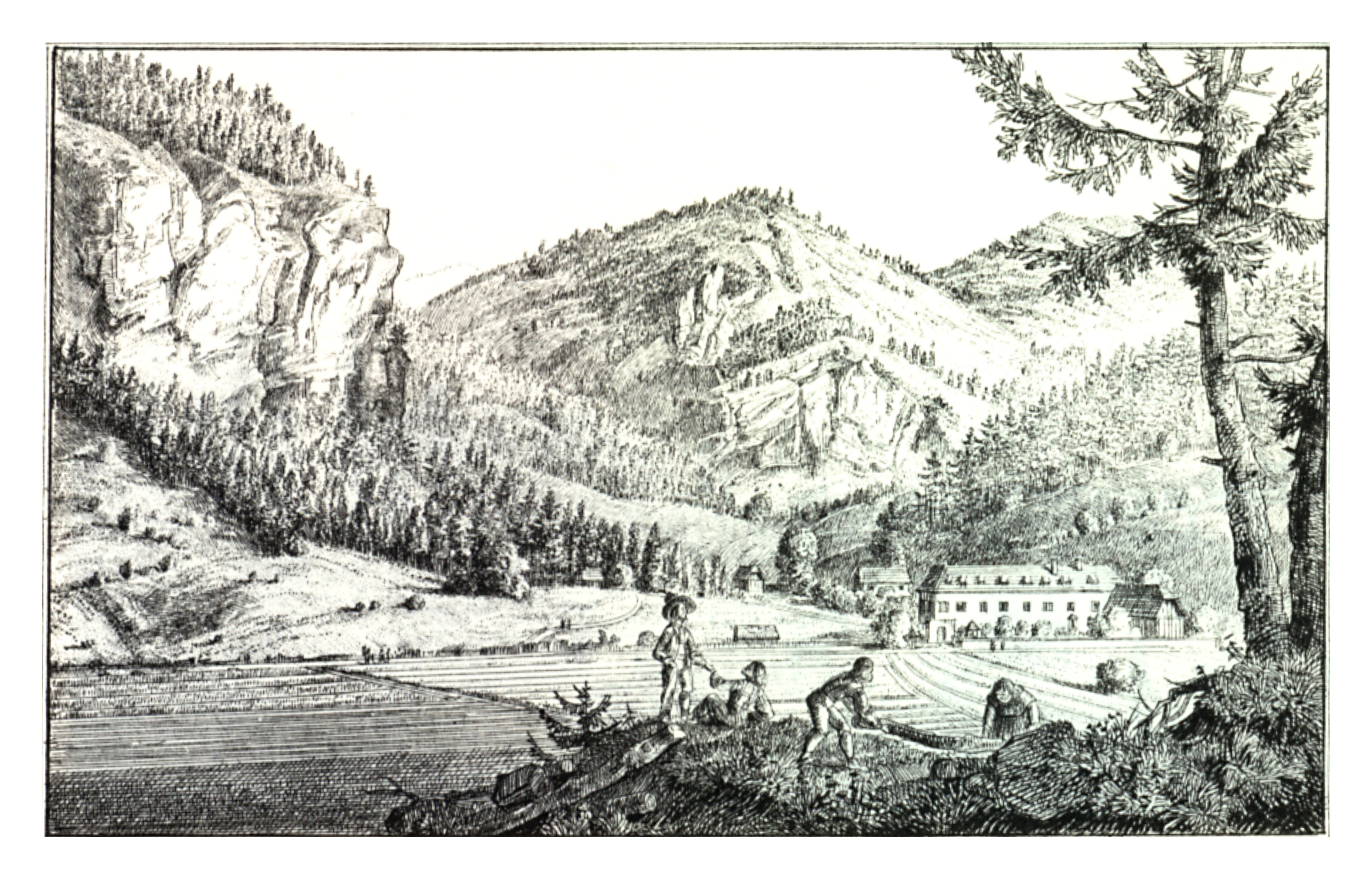 J. F. Kaiser - lithographirte Ansichten der Steyermärkischen Städte, Märkte und Schlösser Graz, 1825 Scanprojekt Community Projektbudget 2012 This scan or this PDF-file was created within the GLAM-project Bookscanning, supported by Wikimedia Germany and Wikimedia Austria as a part of the community-project to capture books, documents and pictures which are not eligible to copyright or for which the copyright has expired. This document describes or depicts an object which is located in Austria today. Send requests for uncompressed scans to Hubertl. This work is in the public domain in its country of origin and other countries and areas where the copyright term is the author's life plus 100 years or less. You must also include a United States public domain tag to indicate why this work is in the public domain in the United States. This file has been identified as being free of known restrictions under copyright law, including all related and neighboring rights.